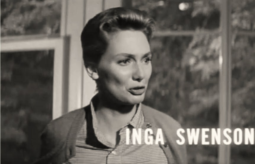 Inga Swenson in Advise & Consent - trailer (cropped screenshot)